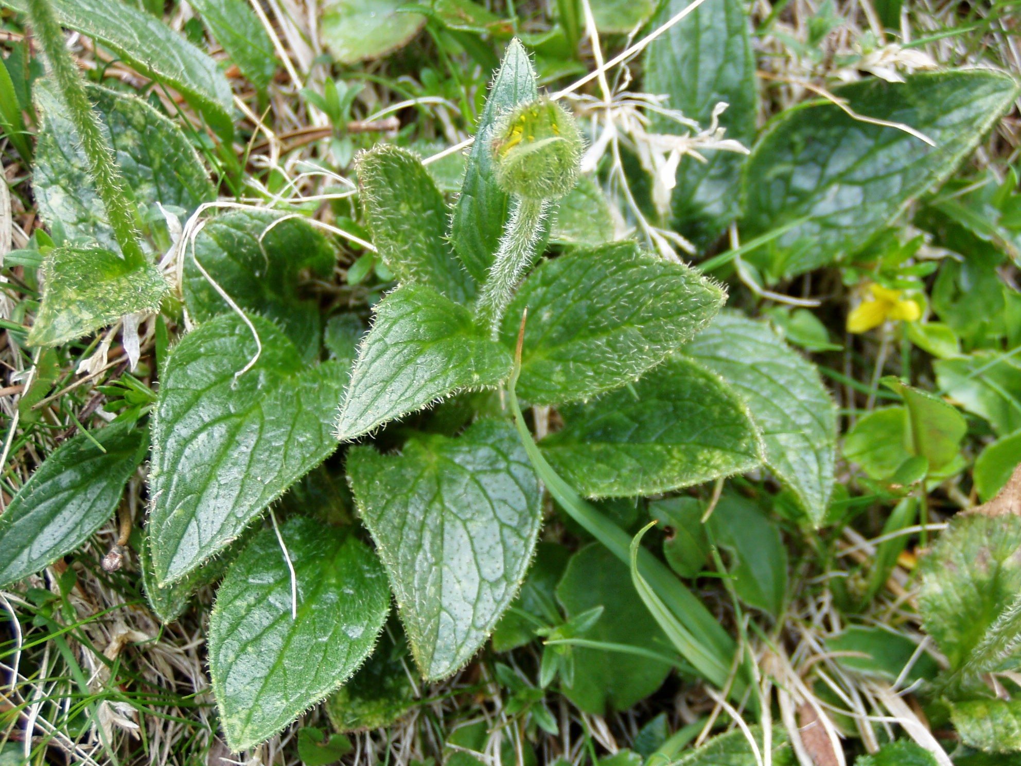 Doronicum glaciale subsp calcareum, photo taken at Rax, Lower Austria. Approx. 1600 m